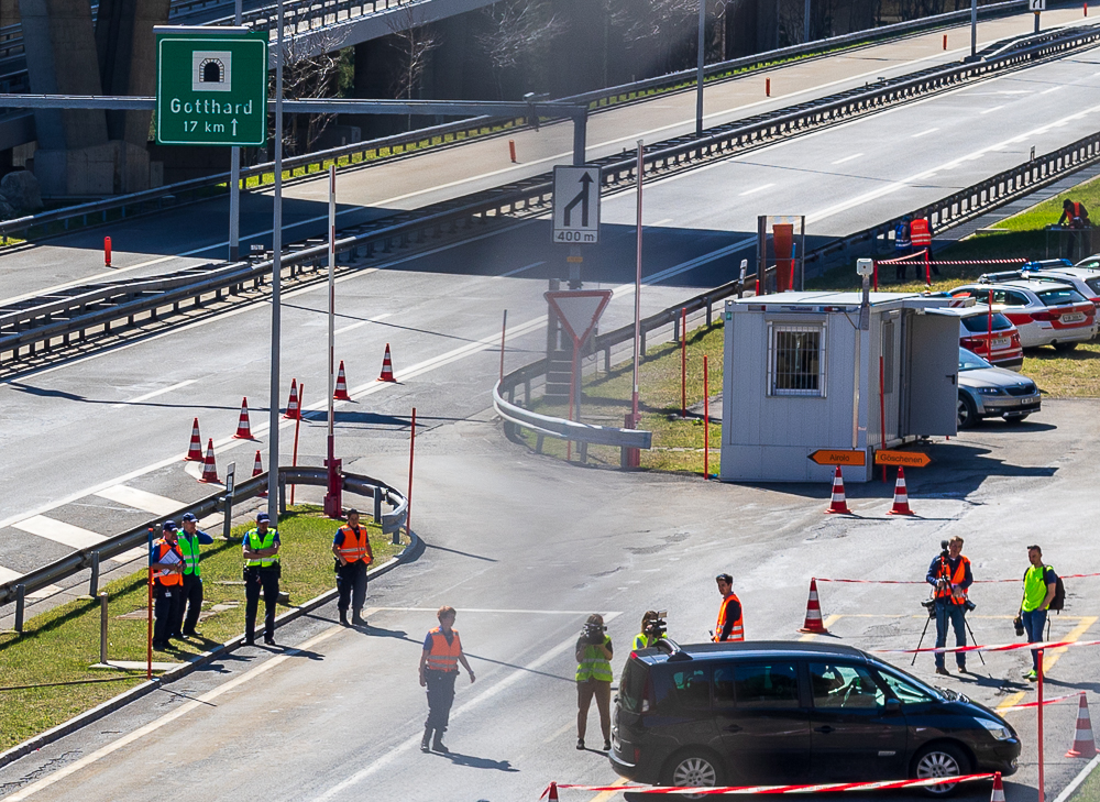 Covid-Pandemie Schweiz: Kantonspolizei Uri kontrolliert vor dem Gotthardtunnel-Nordportal in Göschenen die Fahrzeuge.